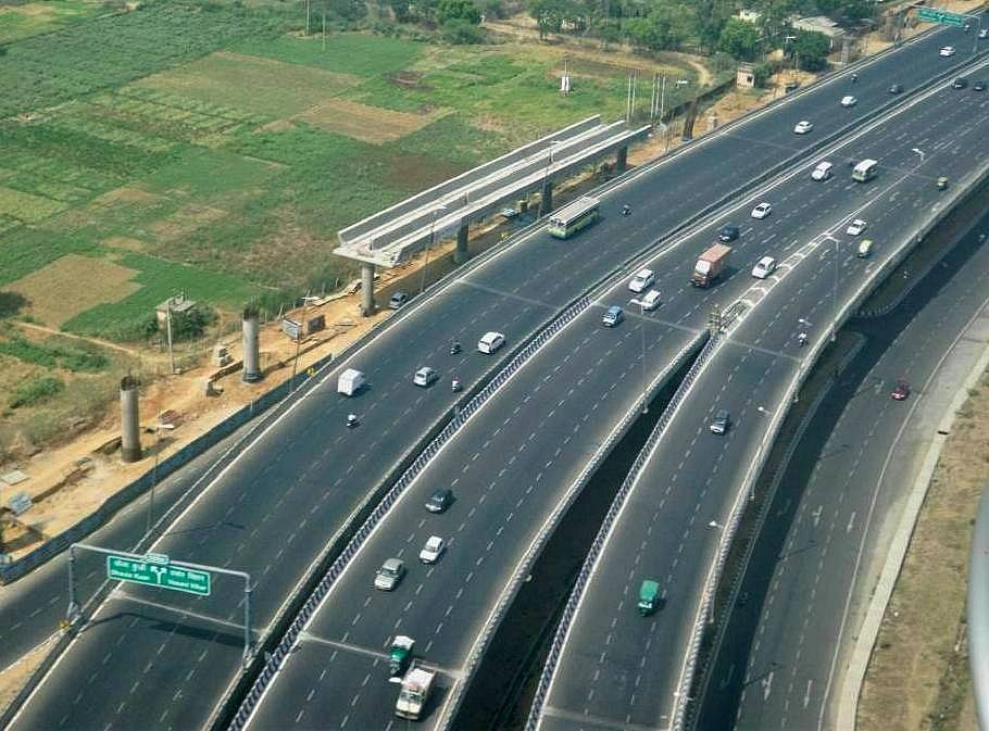 Flyover heading towards Delhi Airport